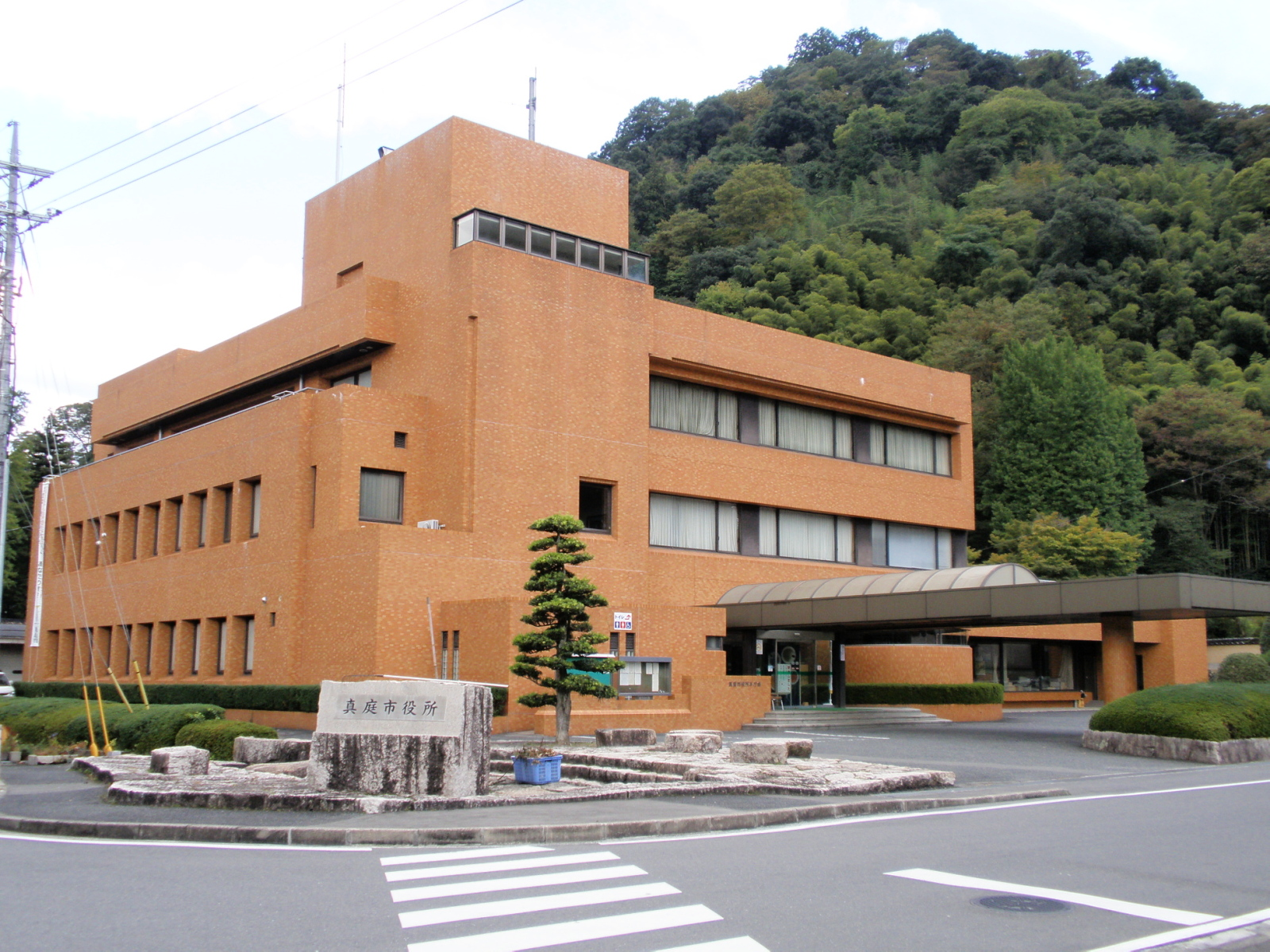 Maniwa city office Katsuyama branch Former Katsuyama town office (1980.10 - 2005.3.30) Former Maniwa city office main building (2005.3.31 - 2011.3.31)